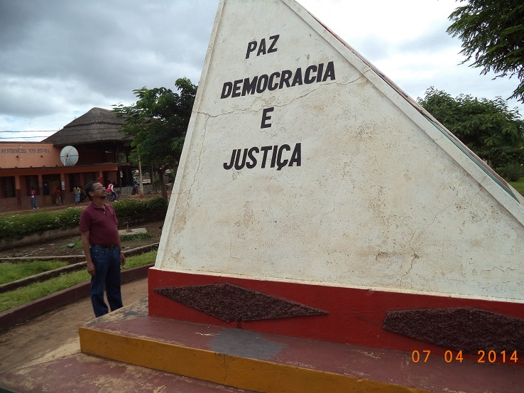 Monument for the Mozambican Heroes in Cuamba, Niassa province, Mozambique